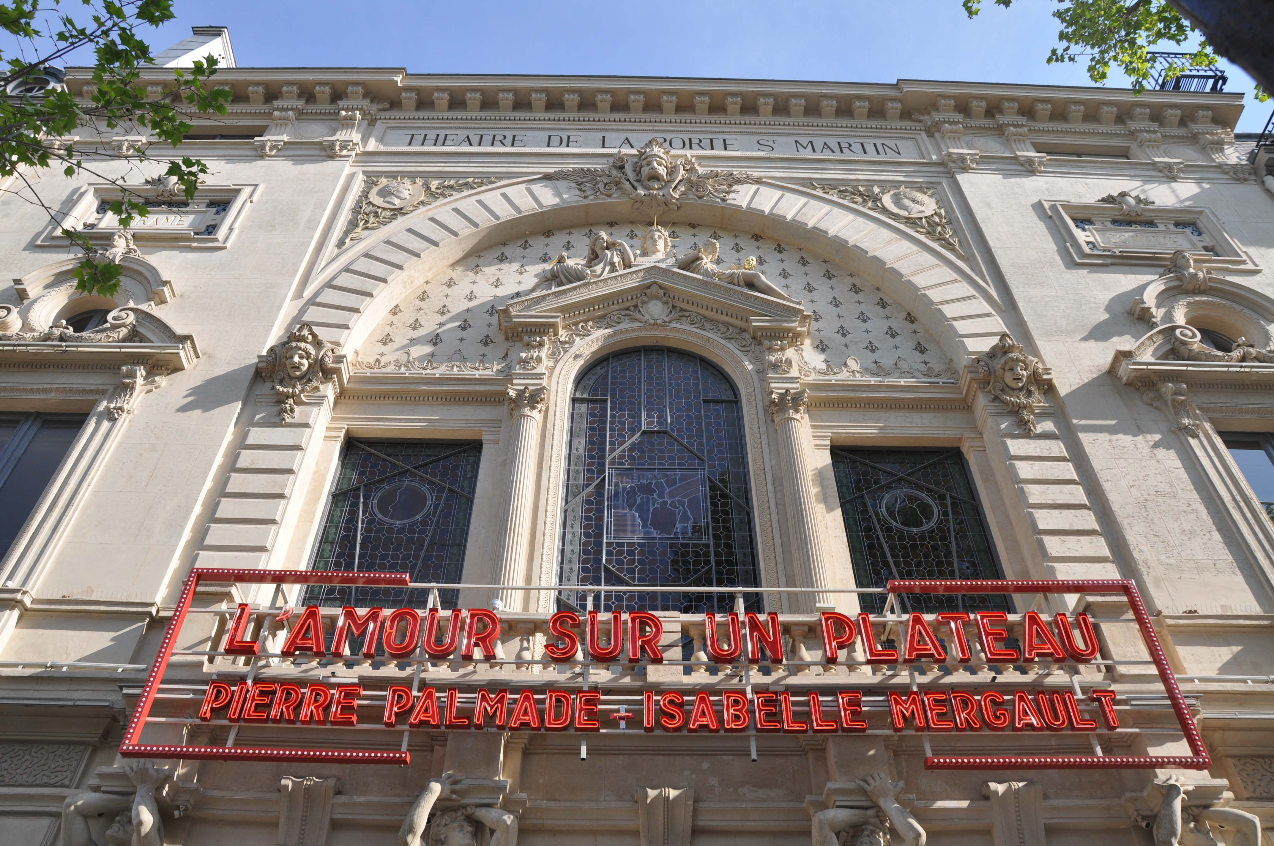 French Theater in Paris, with play "l'amour sur un plateau" (love on scene) Le théâtre de la Porte Saint-Martin à Paris. A l'affiche "l'amour sur un plateau" de et avec Isabelle Mergault